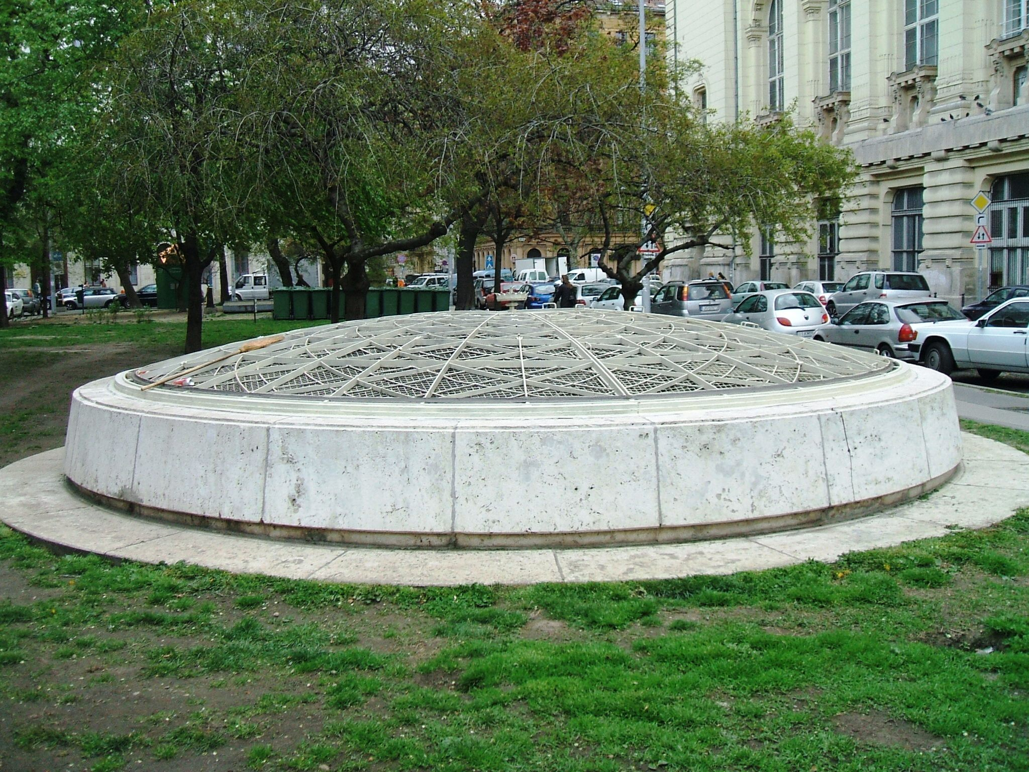 Emergency exit of F4 atomic bunker, Budapest Downtown, Hungary